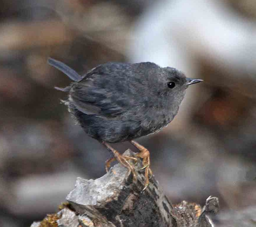 Magellanic tapaculo at Cerro Chapelco, San Martin de los Andes, Neuquén, Argentina